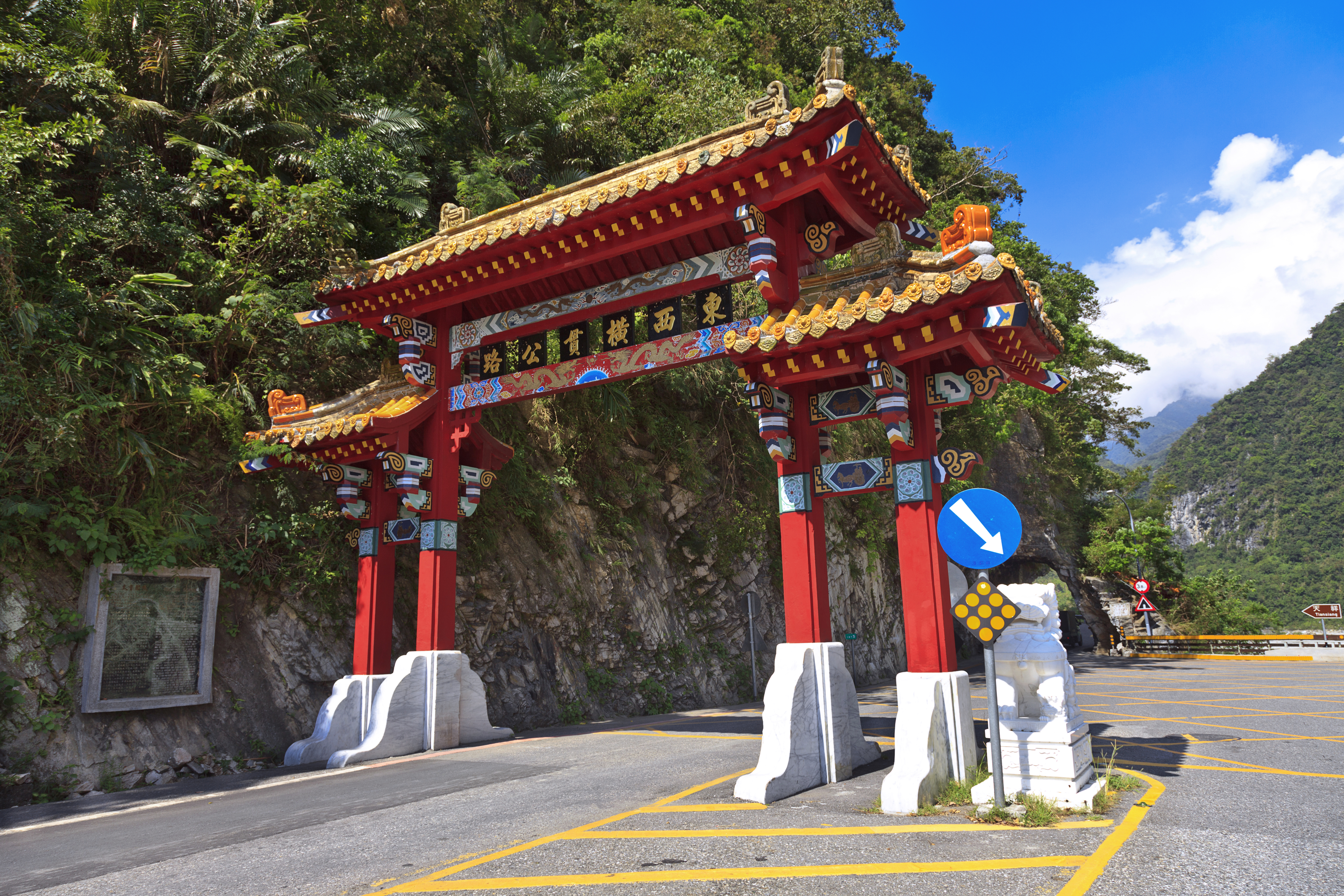 Taroko Archway